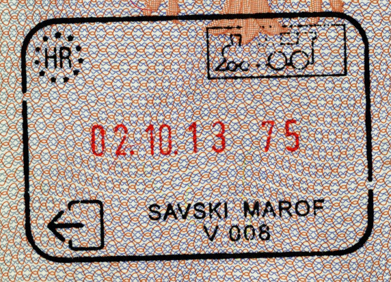 Croatian Schengen exitstamp